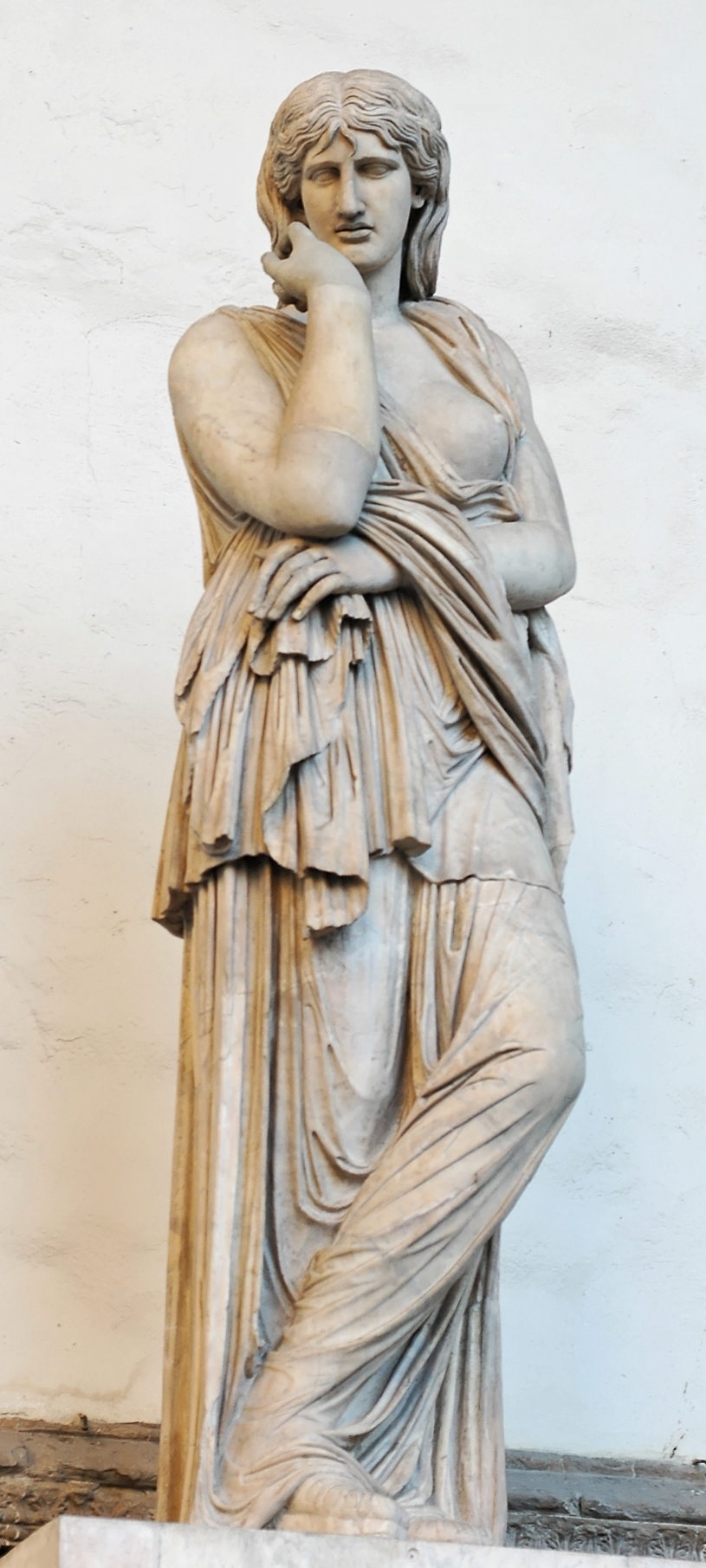 Statue of a Barbarian prisoner, so-called Thusnelda”. Marble, Roman artwork of the period of Trajan or Hadrian (2nd century CE) with modern restorations. Found in Rome; in the Capranica della Valle Collection, 1541; at the Villa Medicis in Rome, 1584; in Florence since 1787, installed at the Loggia dei Lanzi in 1789.